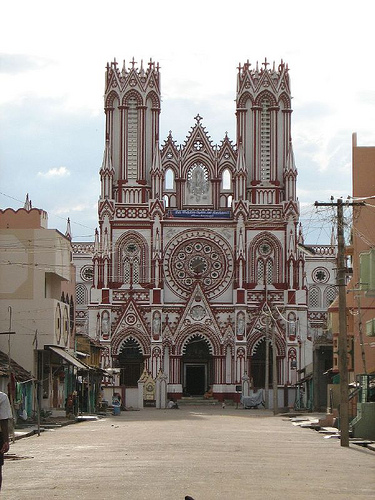 Idaikattur Church Front view